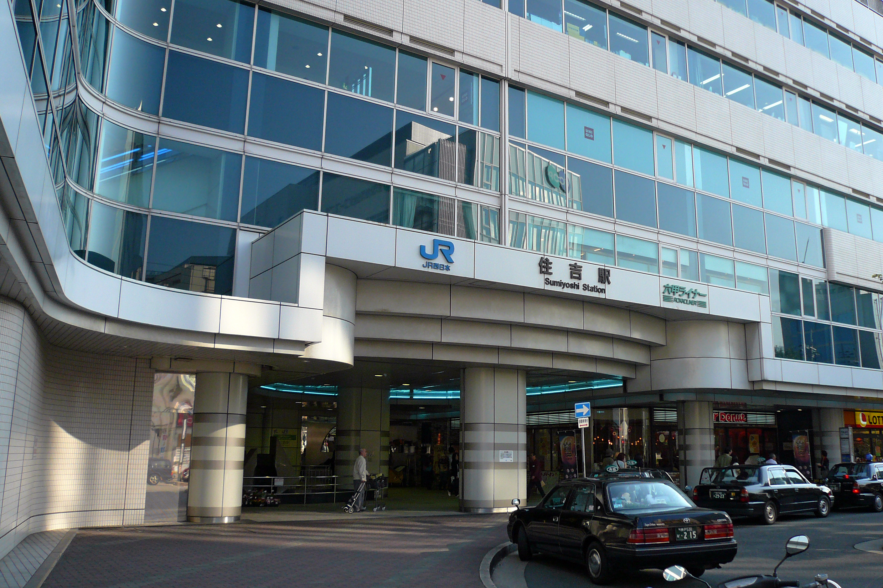 JR Sumiyoshi Station in Kobe, Hyogo prefecture, Japan